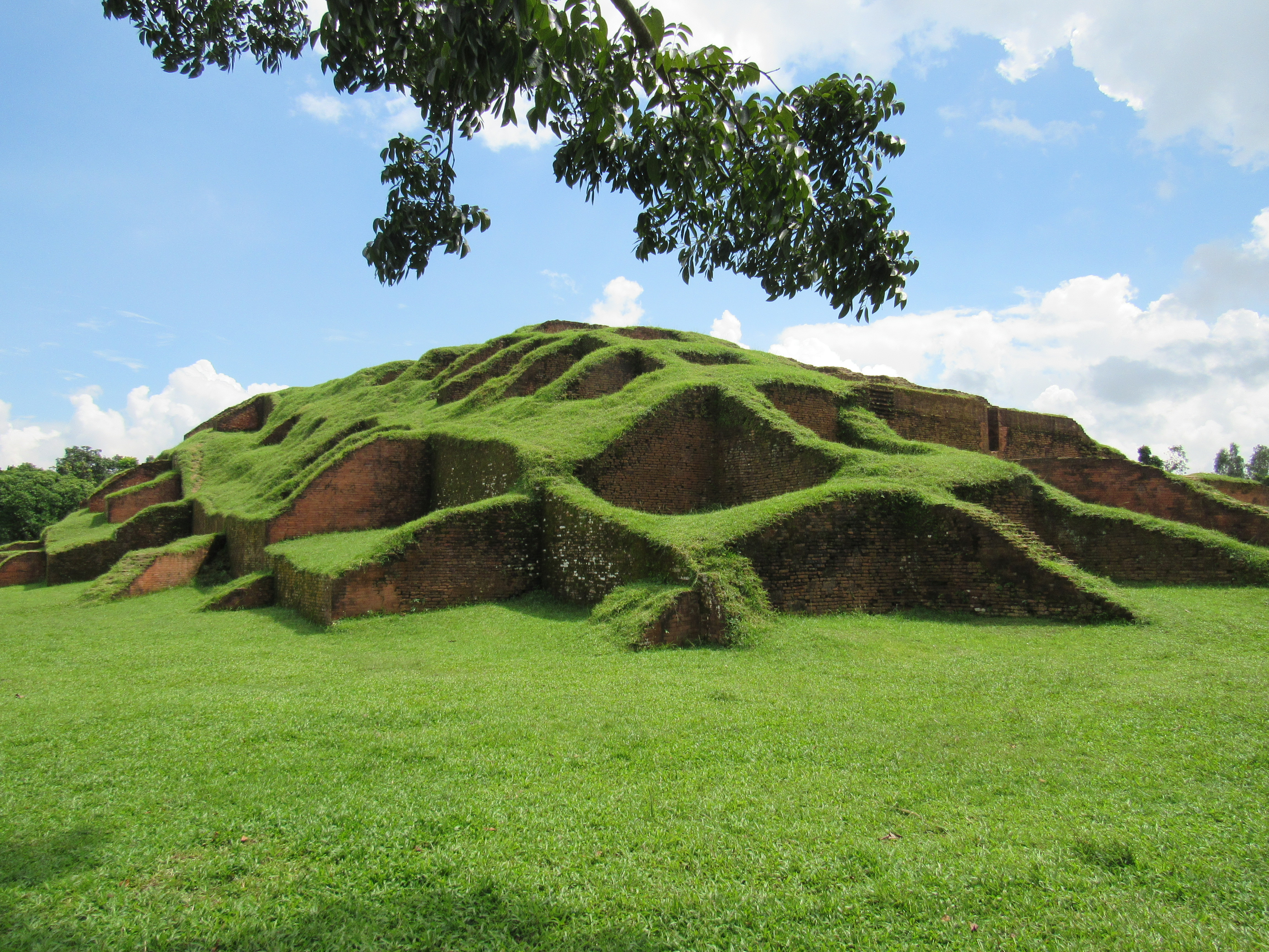 Gokul Medh, Bogra, September 2016